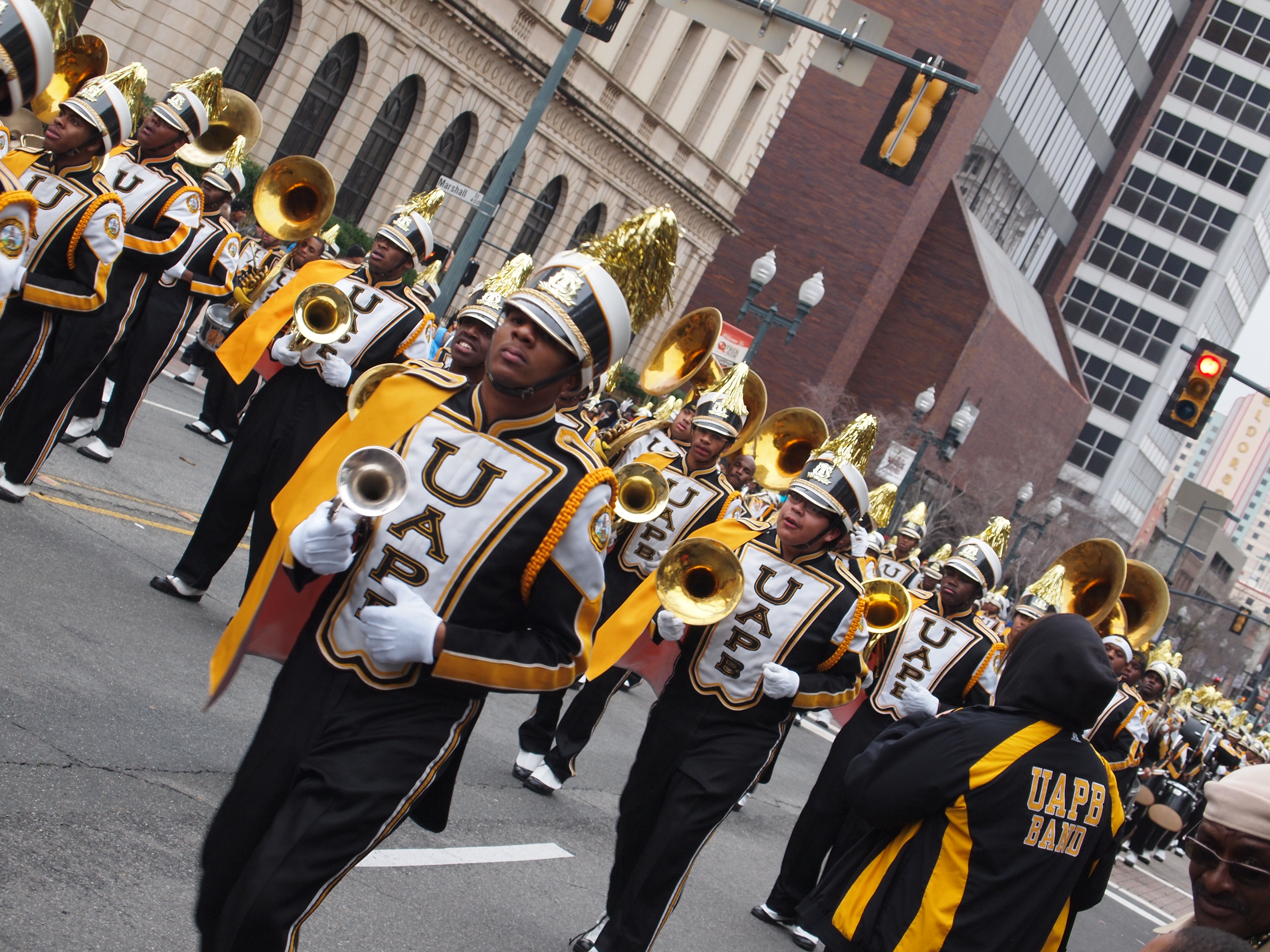 The University of Arkansas at Pine Bluff marching band perform at the 2011 Krewe of Harambee Martin Luther King Day Mardi Gras Parade in downtown Shreveport, Louisiana.